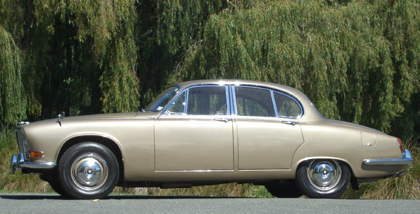 Profile view of 1968 Jaguar 420